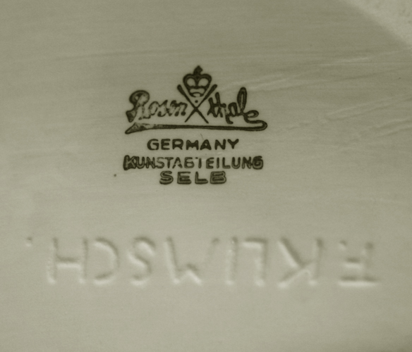 Fritz Klimsch (Frankfurt 1870–1960 Freiburg) dark green factory mark.